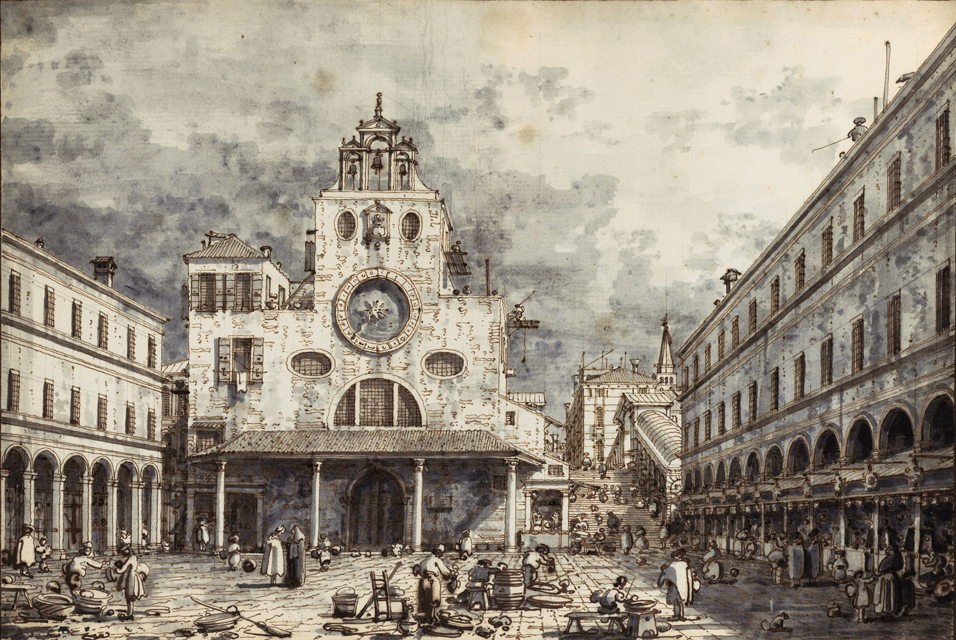 Giovanni Antonio Canal, called Canaletto, Venice 1697-1768, Campo San Giacomo di Rialto, Venice, pen and brown ink and grey wash, 246 by 372mm